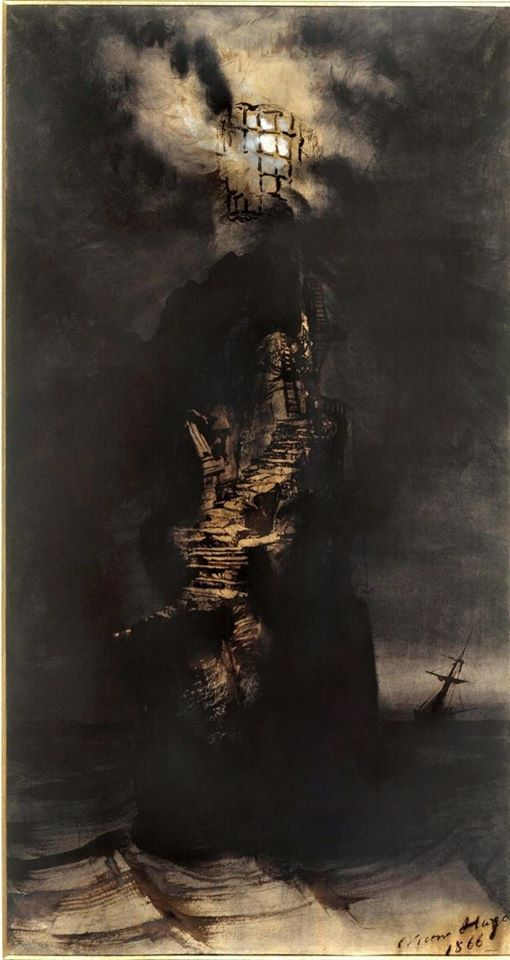 Le phare by Victor Hugo